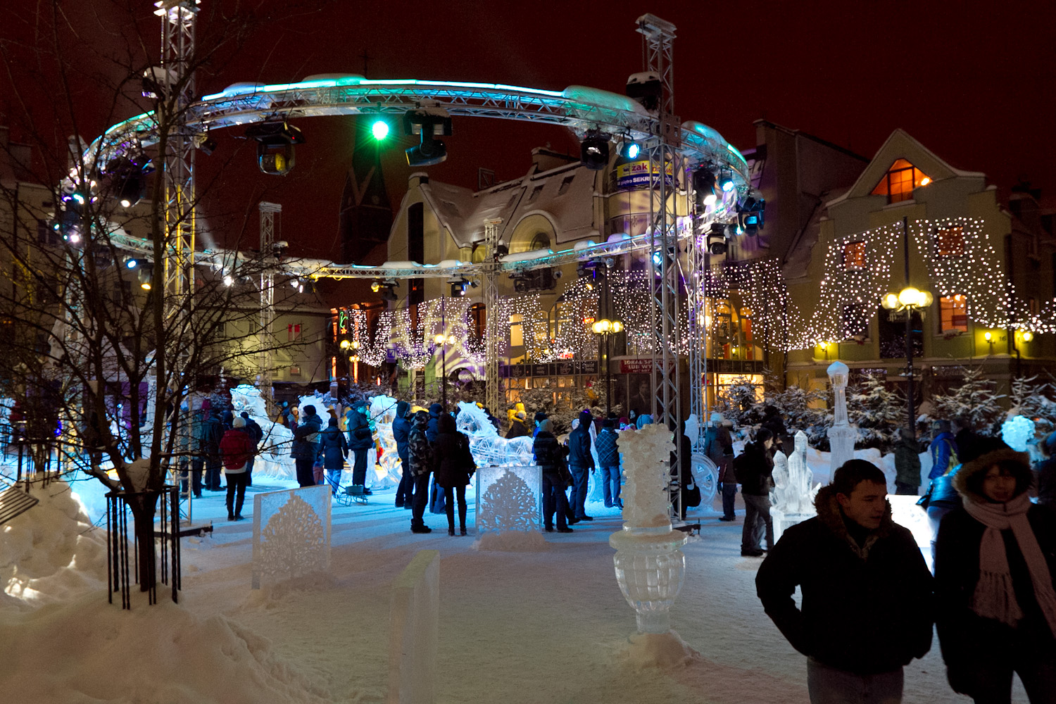 The Fish Market in Olsztyn during The Christmas Fair